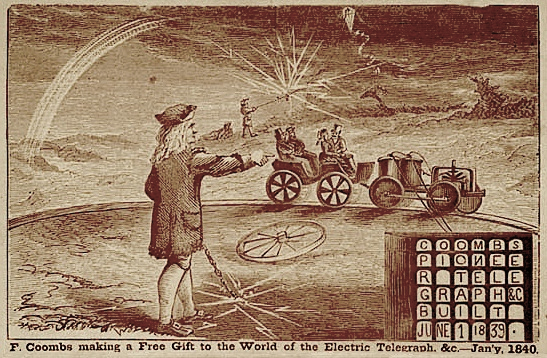 sketch of Frederick Coombs (1803-1874) aka George Washington II